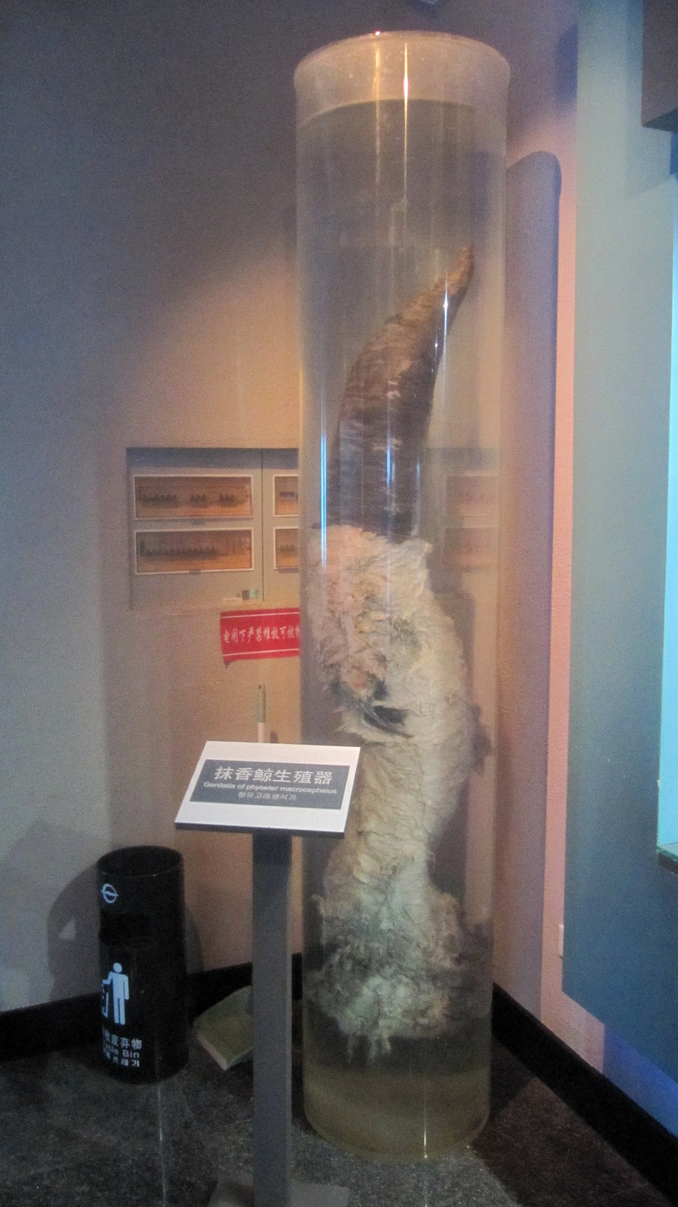 Sperm whale phallus in Sperm whale museum, Liugong Island, Weihai, Shandong province, China